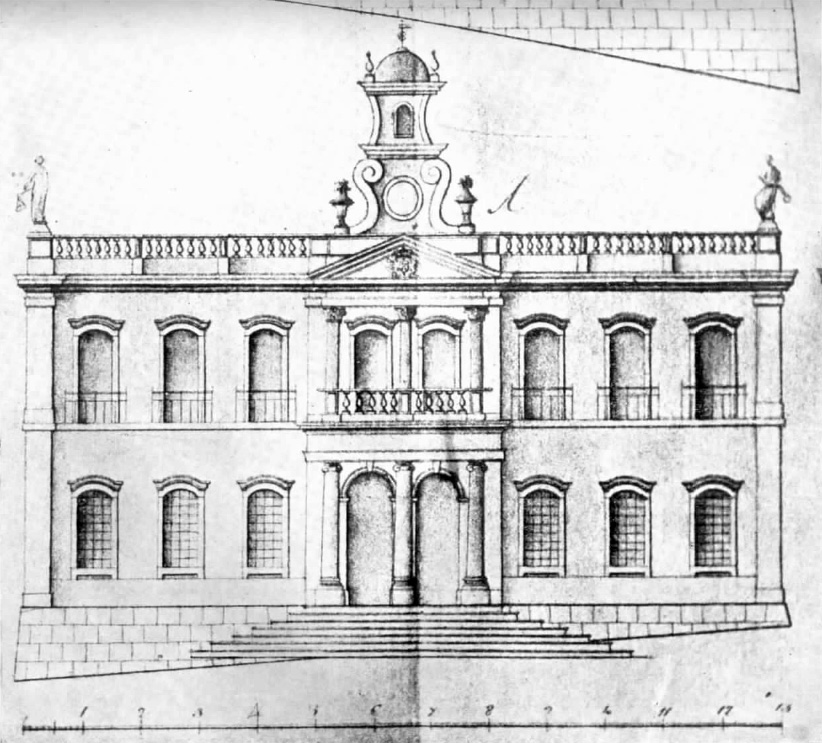 Project (18th century) for the Municipality and prison building of Vila Rica (now Ouro Preto), Brazil